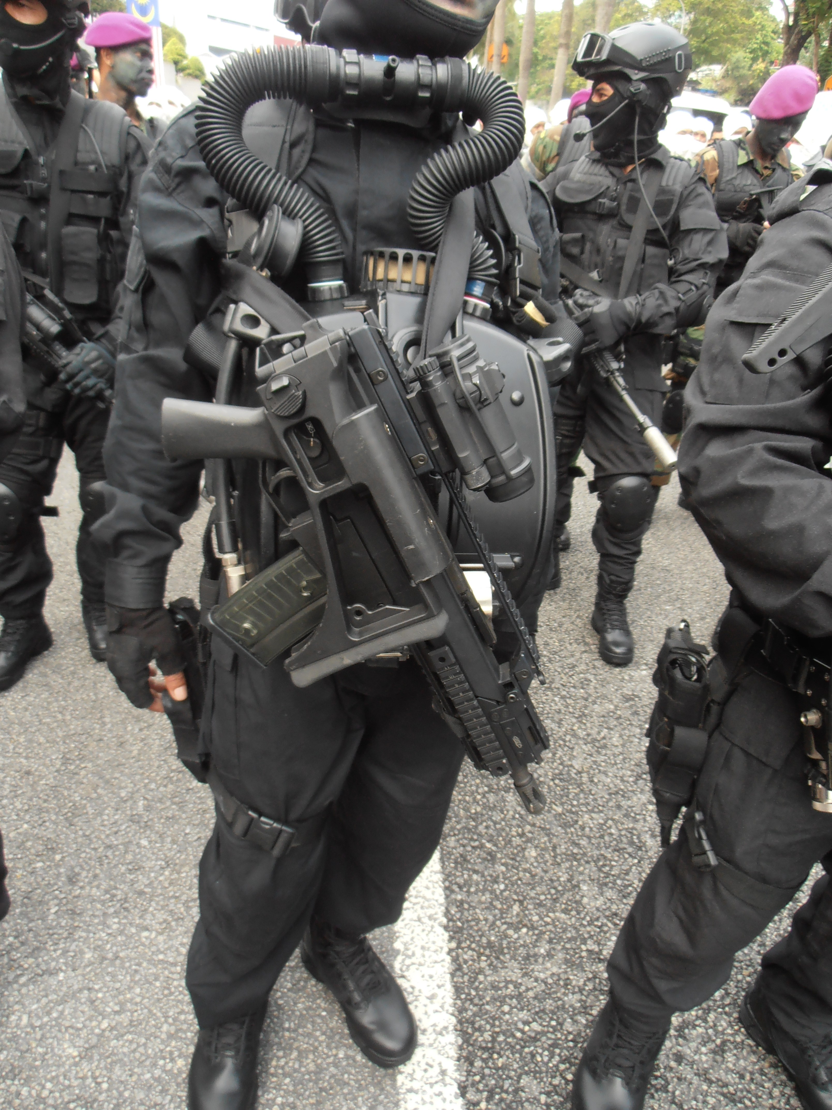 The G36C Special Patrol Carbine holding by Navy PASKAL frogman strike team operator of Royal Malaysian Navy during 57th National Day Parade, located at Merdeka Square, Kuala Lumpur, Malaysia. The G36C can be fired by both left-handed and right-handed personnel with ease. It has a shorter barrel than the G36K, and a birdcage flash suppressor. The extremely short barrel forced designers to move the gas block closer to the muzzle end and reduce the length of the gas piston operating rod. The handguard and stock were also shortened and the fixed carry handle (with optics) was replaced with a carrying handle with an integrated MIL-STD-1913 Picatinny rail.